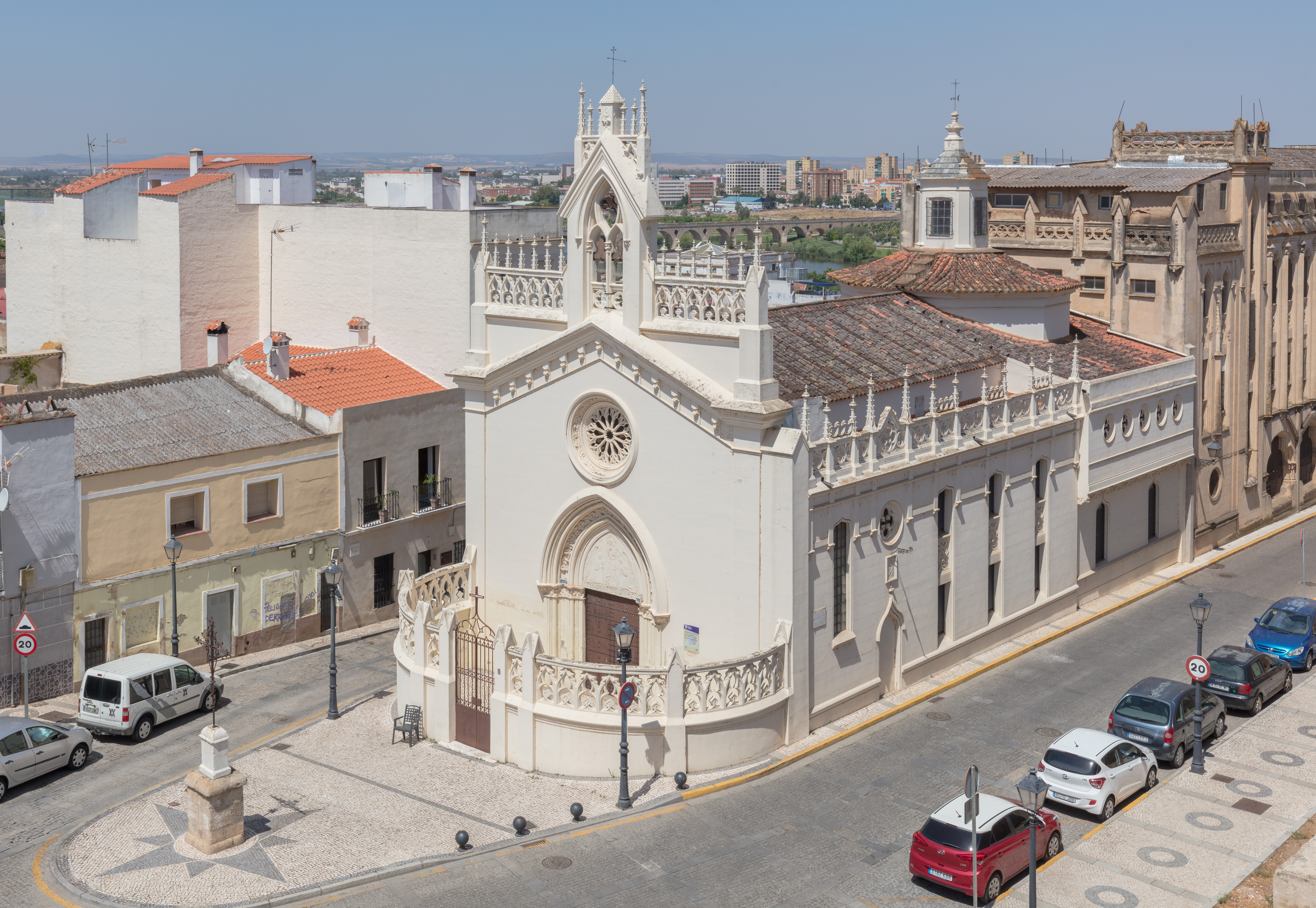 Convent of the Adorers, Badajoz, Spain